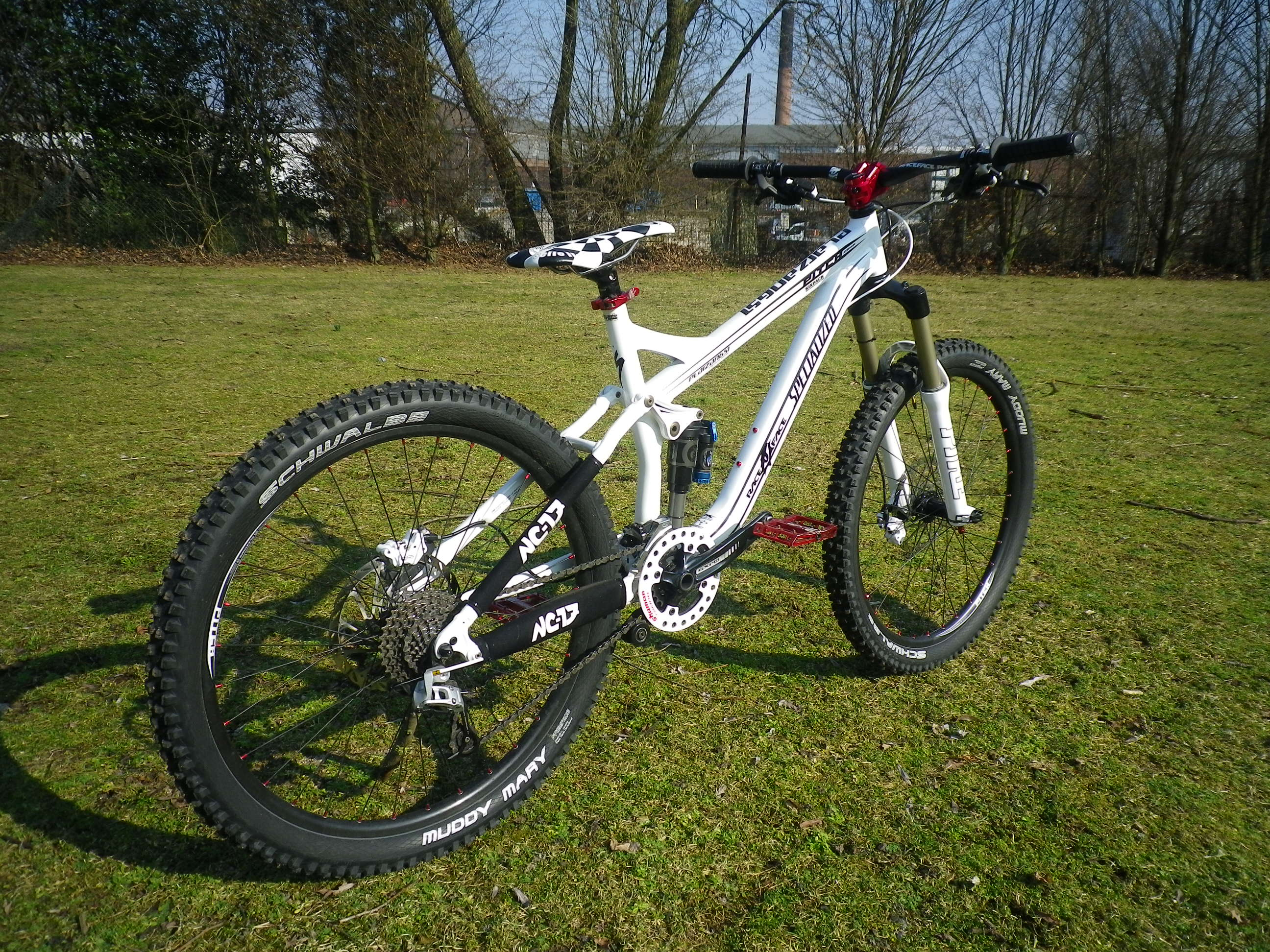 Custom build Specialized Pitch Comp 2010 for the use of AM, Enduro & Freeride Pentax Optio H90